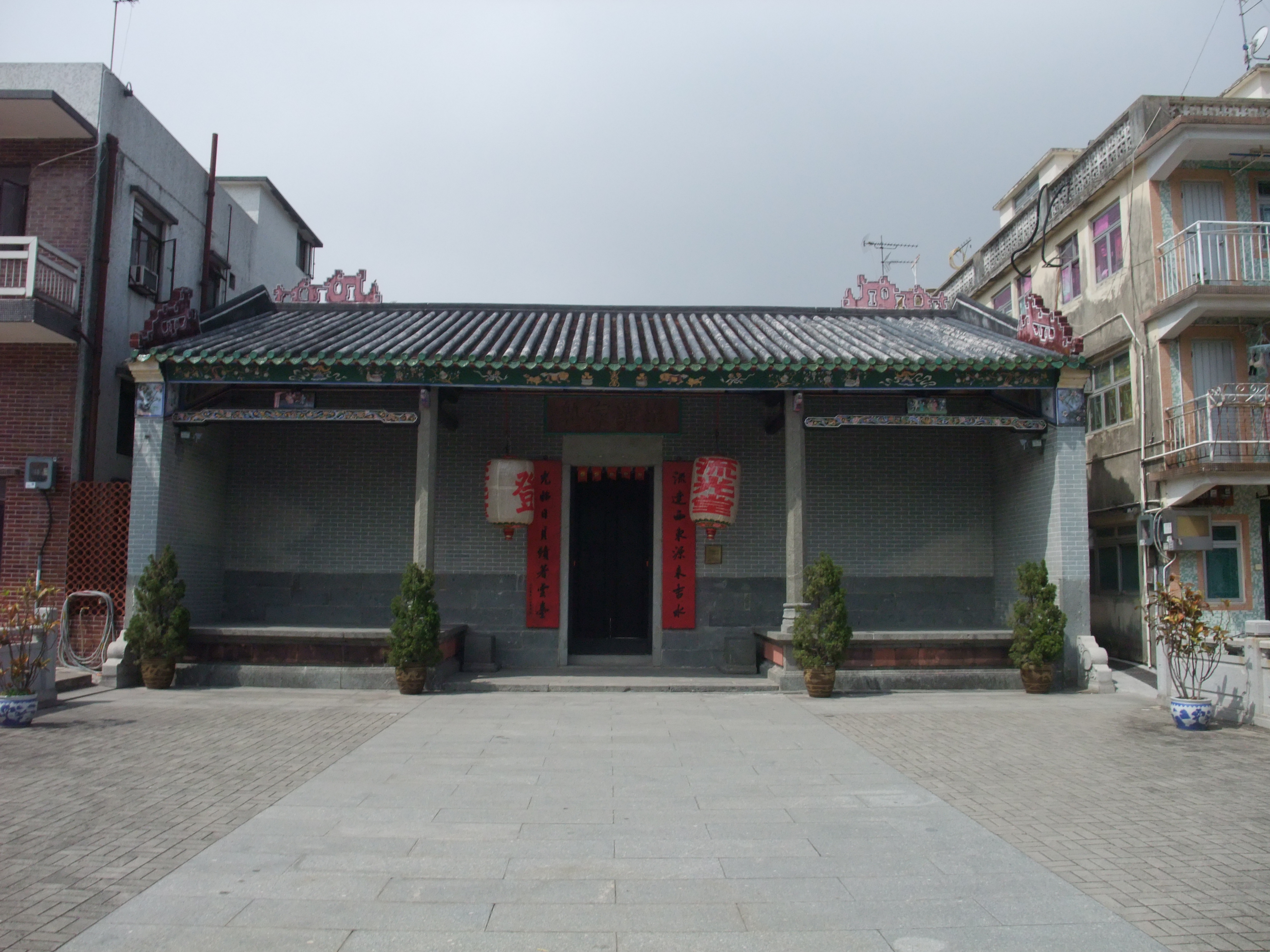 Photo of King Law Ka Shuk